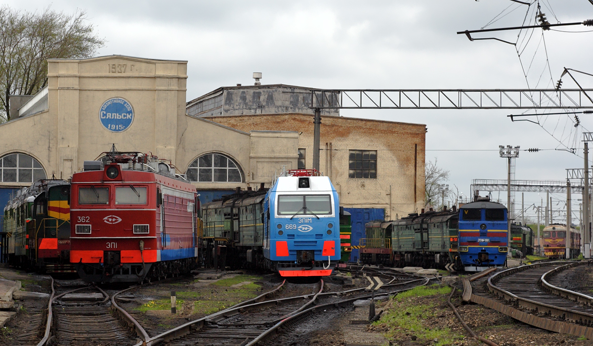 Locomotives in depot Salsk. Electric locomotives EP1-362 and EP1M-669, on the background - diesel locomotives ChME3, 2TE10M, 2TE10V, TEP60 and electric locomotives VL60.